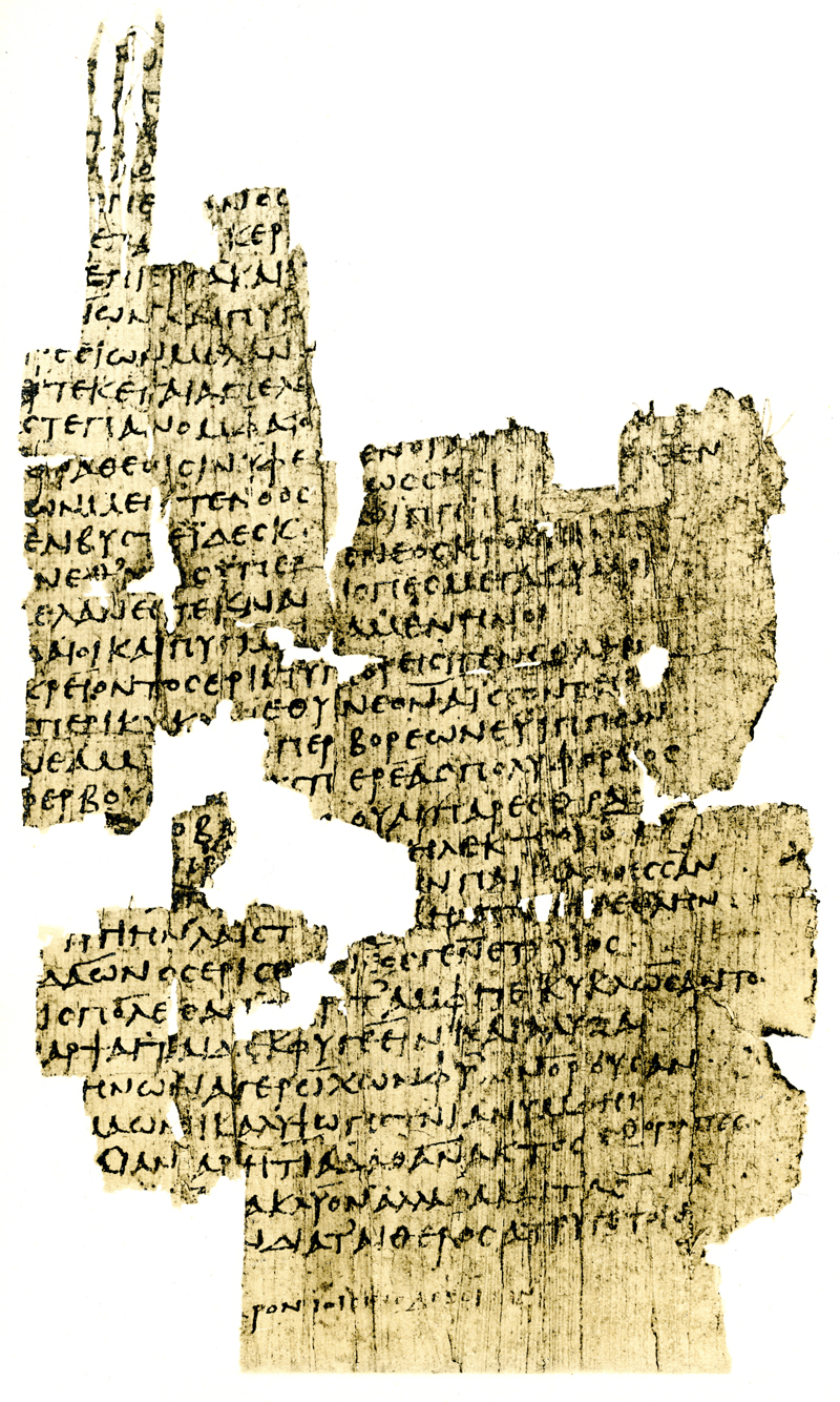 P.Oxy. XI 1358 fr. 2 col. i: Hesiod, Catalogue of Women fr. 150 Merkelbach & West